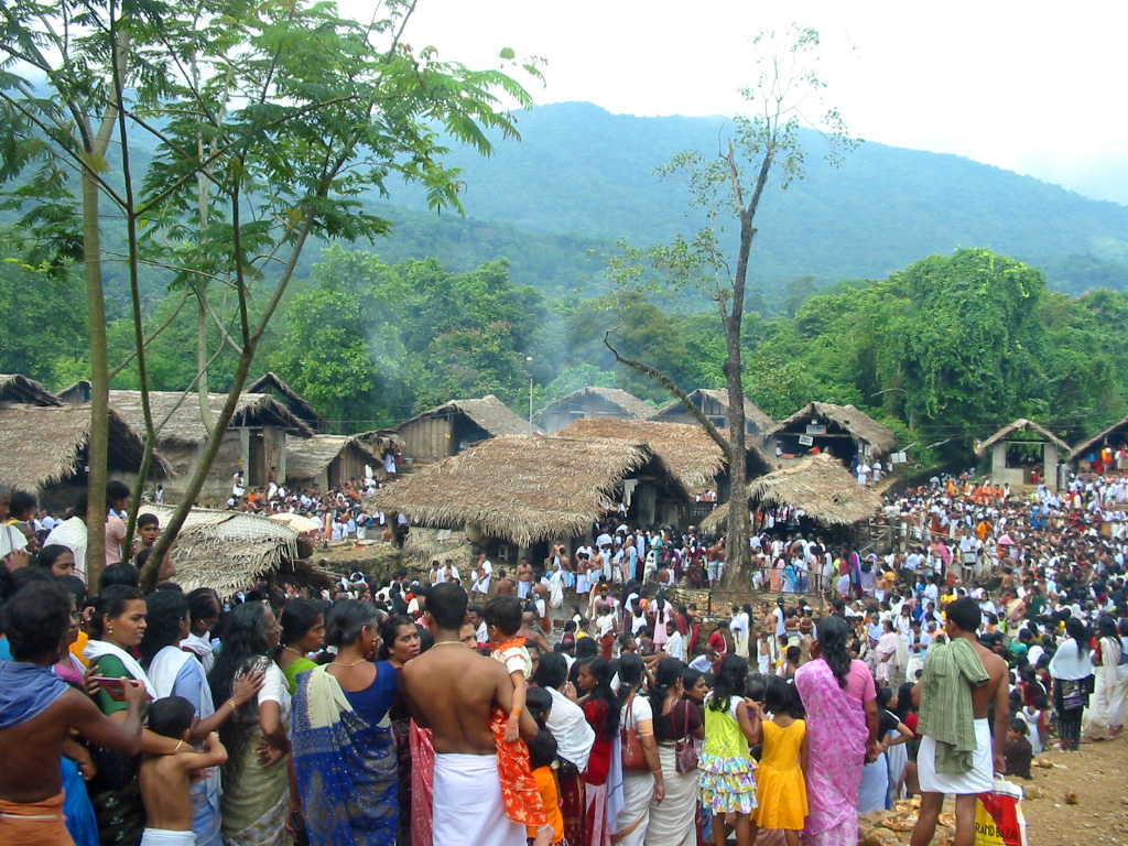 People waiting for Darshan at Kottiyoor temple